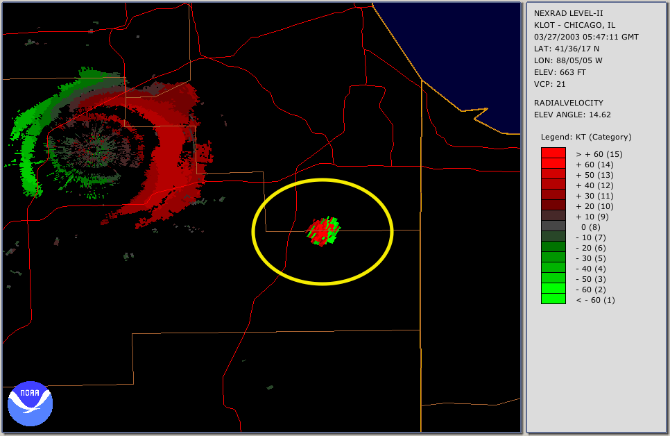 NOAA NEXRAD radar image of meteorites falling in the Park Forest, IL meteorite fall of 26 March 2003